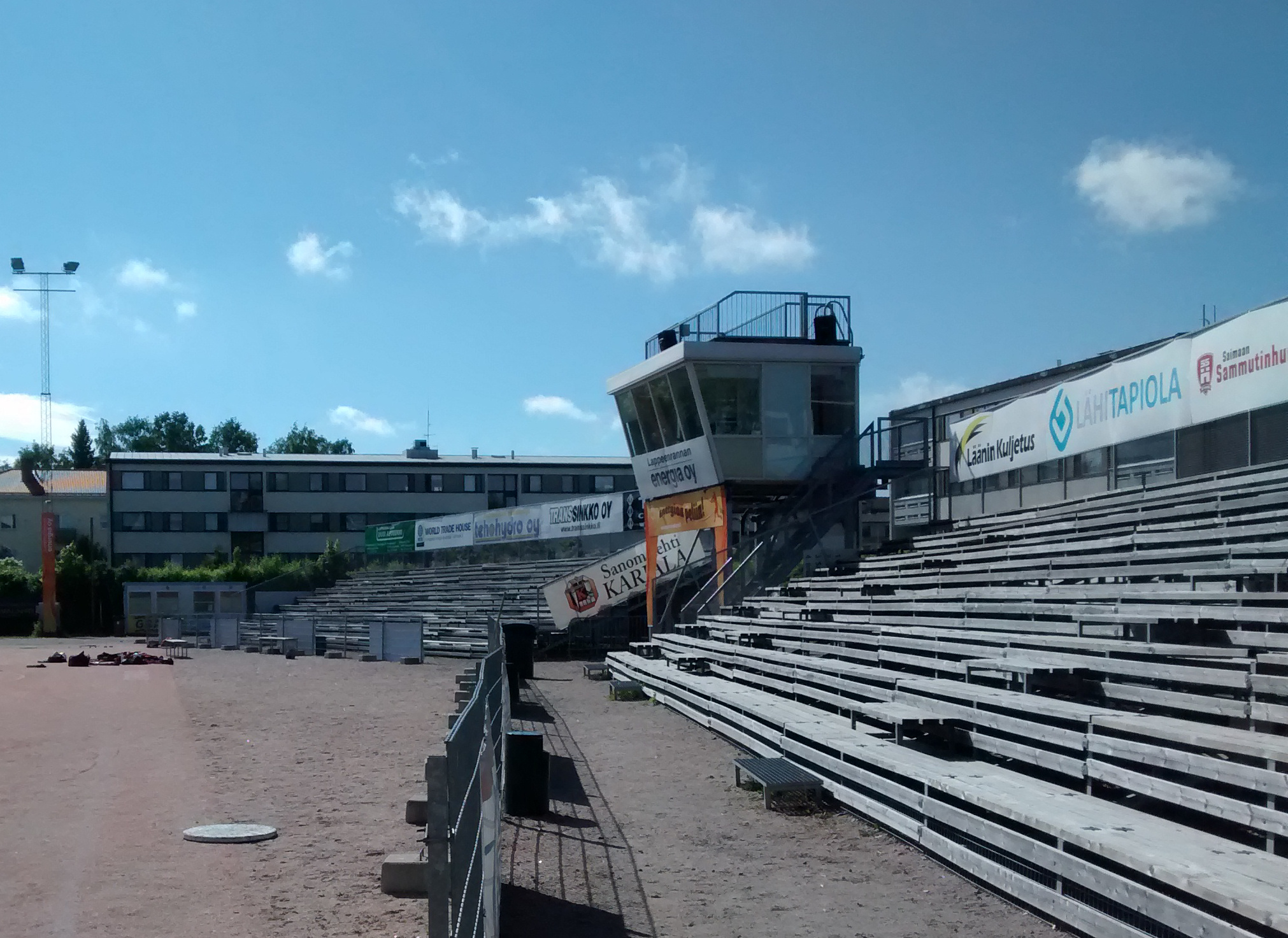 Vanha kenttä, a pesäpallo stadium in Lappeenranta.